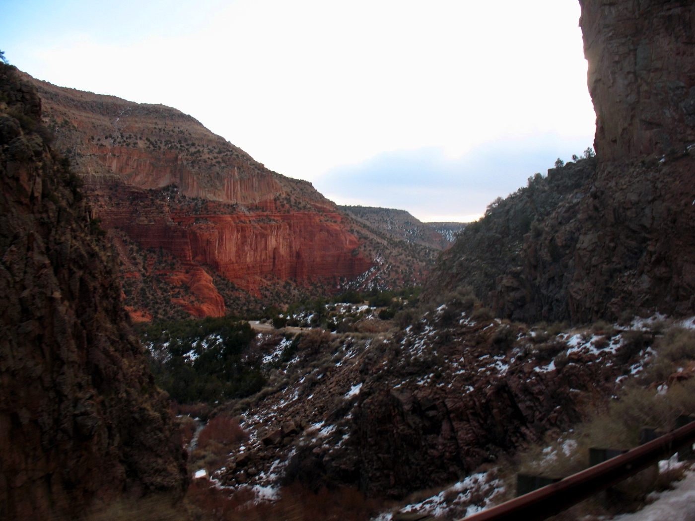 View along the Rio Guadalupe in Jemez Mountains